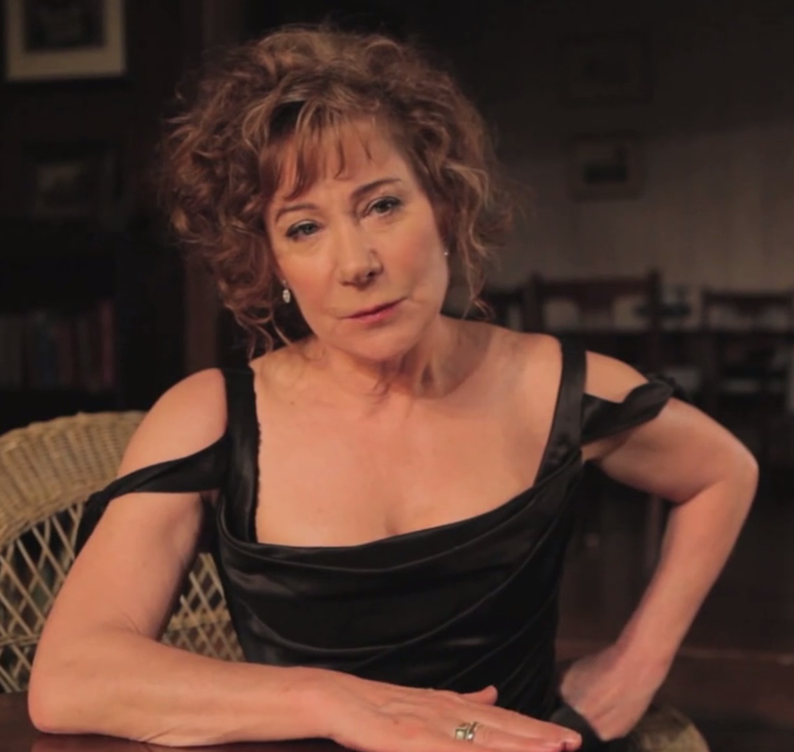 American born British actress Zoë Wanamaker in a still from a film about acting. Director: Samuel Abrahams @ Smuggler Editor: Ed Enayat